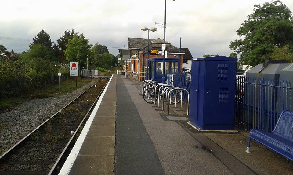 A photograph of Cookham railway station taken in August 2015. Looking down the line north towards Bourne End railway station whilst on a day trip.